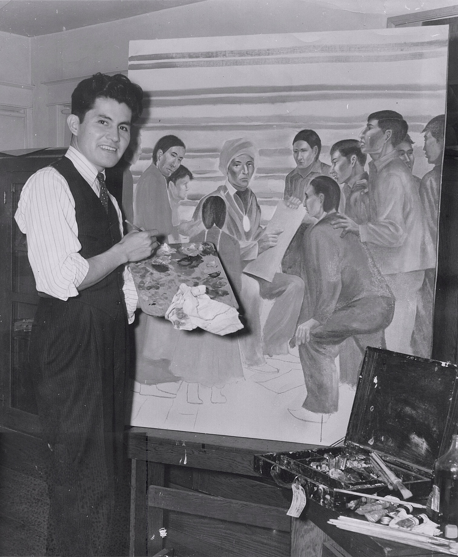 Franklin Gritts painting Sequoyah. Photograph of the Cherokee artist, Franklin Gritts, painting an oil in 1941. He took this self-portrait photo for his own use. The oil may be one that he painted for Haskell Indian University in Lawrence, KS. The oil painting in the photo is unfinished.